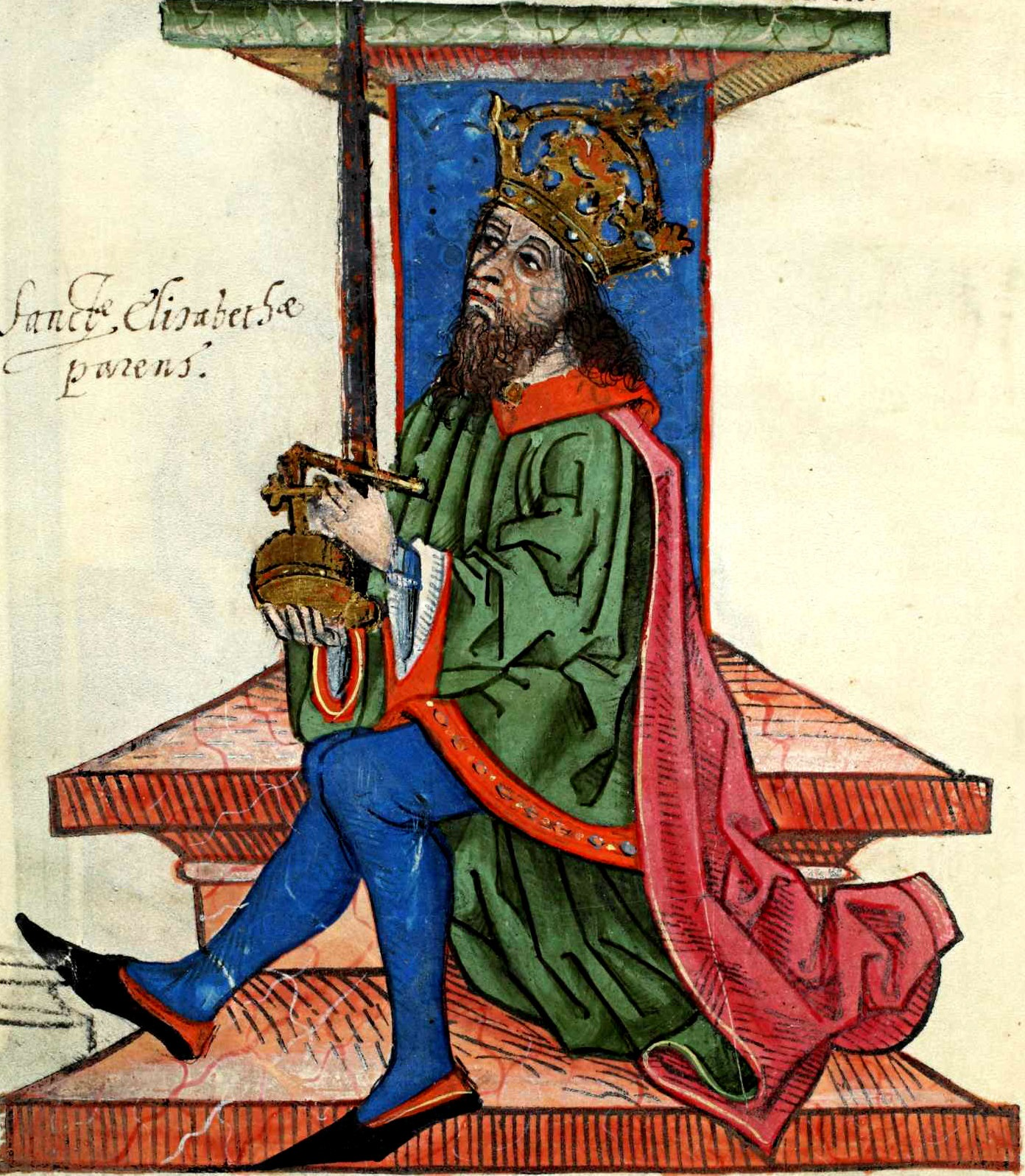 Andrew II of Hungary